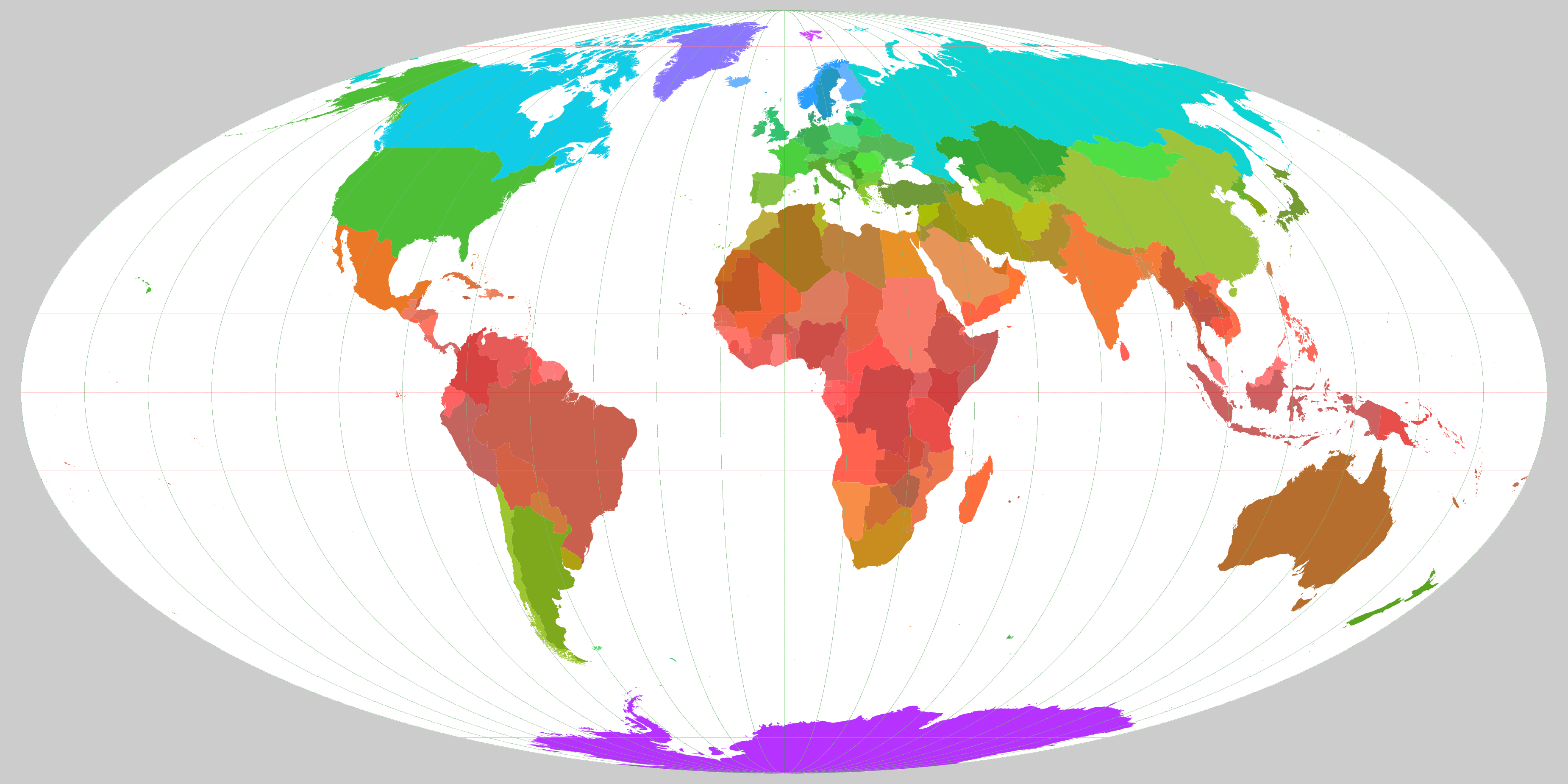 Political map of the world in Mollweide projection with colours that vary with latitude.